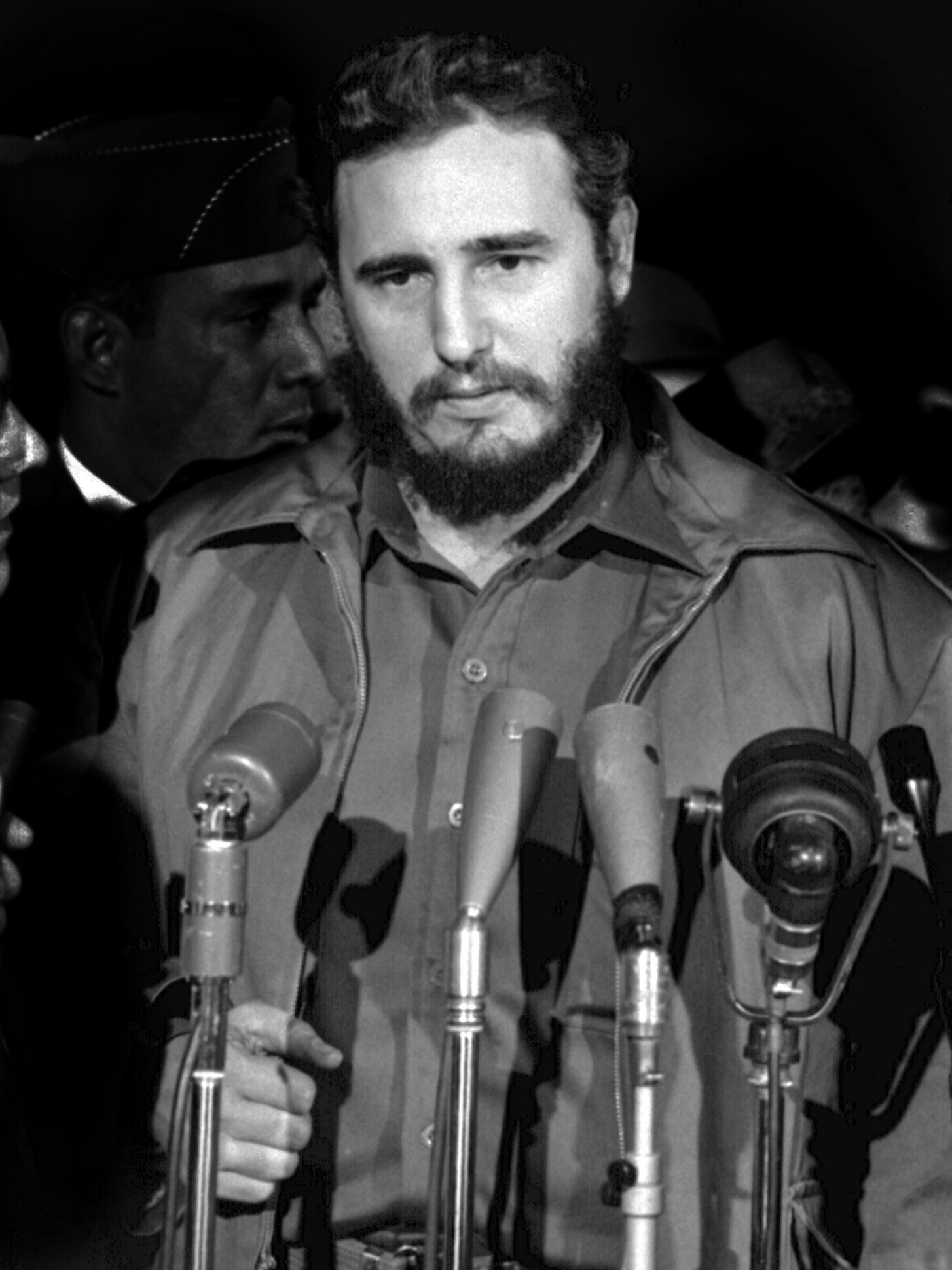 Fidel Castro arrives MATS Terminal, Washington, D.C.